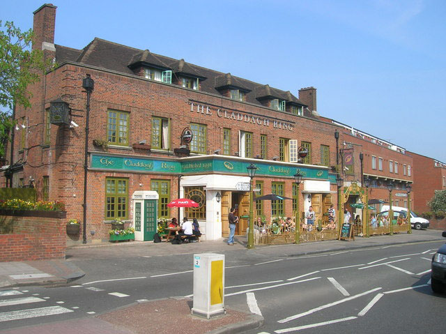 The Claddagh Ring pub is in Church Road, Hendon, north London